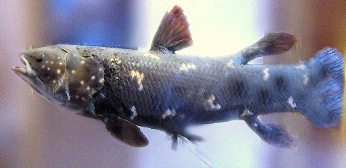 Species Latimeria chalumnae (West Indian Ocean coelacanth) Family Latimeriidae Source own photo at the Zoo of Antwerp, Belgium (the background has been blurred)